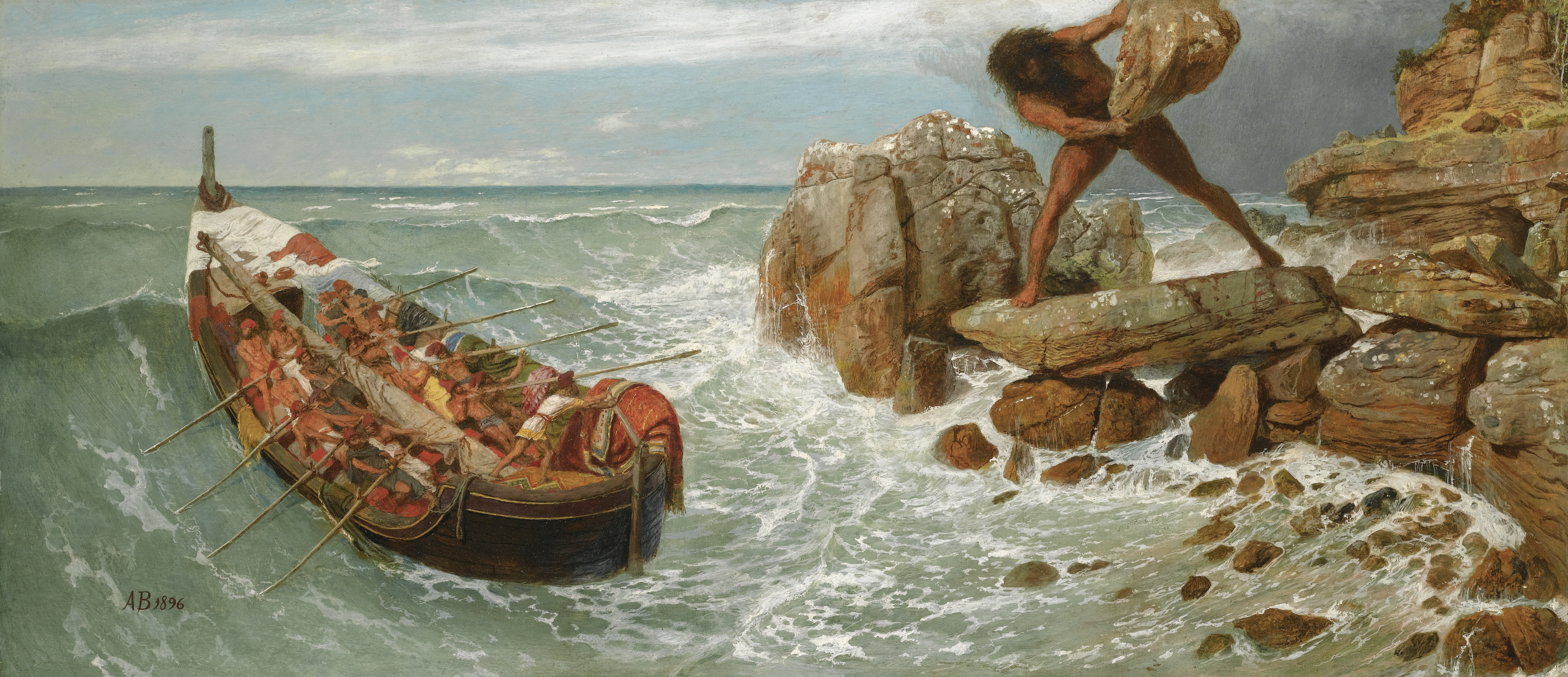 Böcklin’s original training as a landscape painter shines through in this unconventional interpretation of an episode from the ancient Greek epic poem the Odyssey. Crashing waves meet jagged rocks in a spray and scurry of foam. Escaping from the island of the Cyclopes—one-eyed, ill-tempered giants—the hero Odysseus calls back to the shore, taunting the Cyclops Polyphemus, who heaves a boulder after the boat. Unlike Academic colleagues who treated ancient mythology with reverence and solemnity, Böcklin often played up strange, grotesque, and even ridiculous elements of these stories, conjuring a pre-Classical world governed by violence and lust.